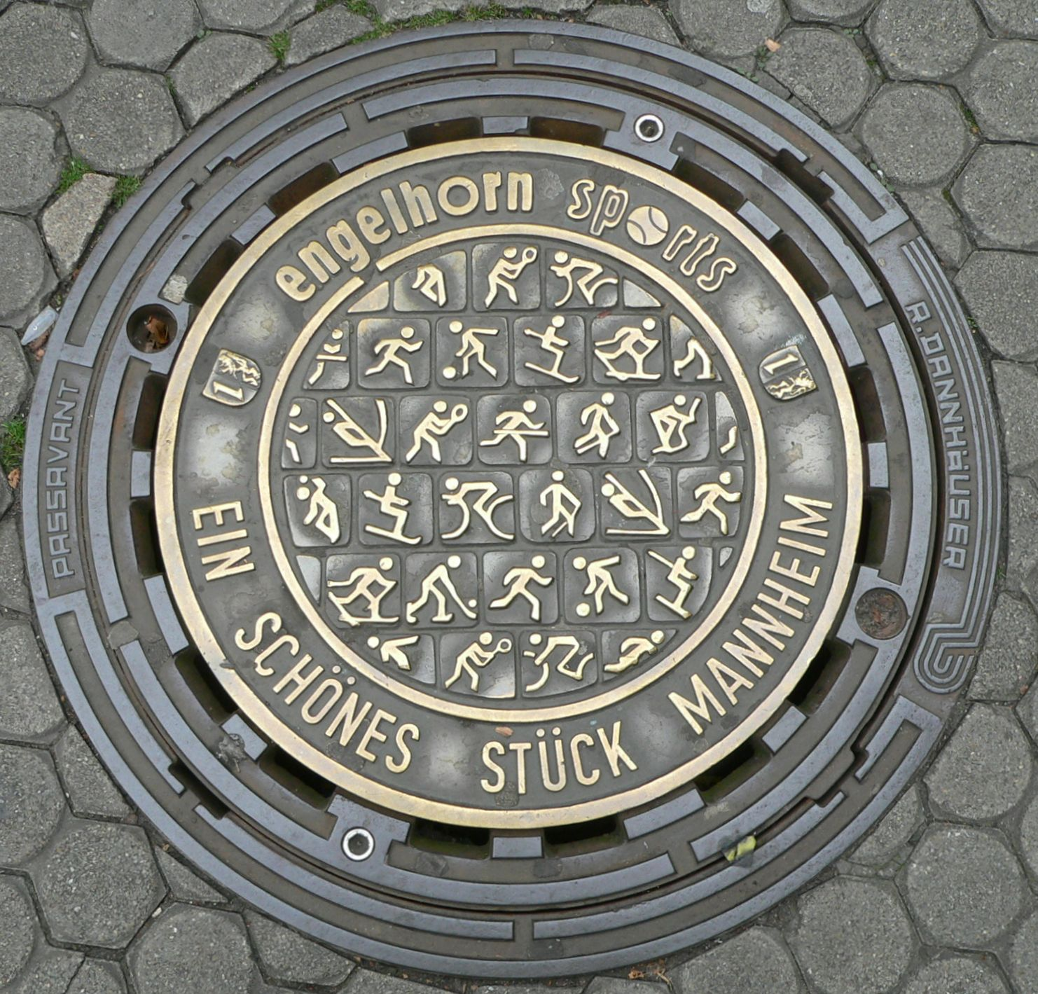 Man hole cover with symbols of various sports, Mannheim, Germany